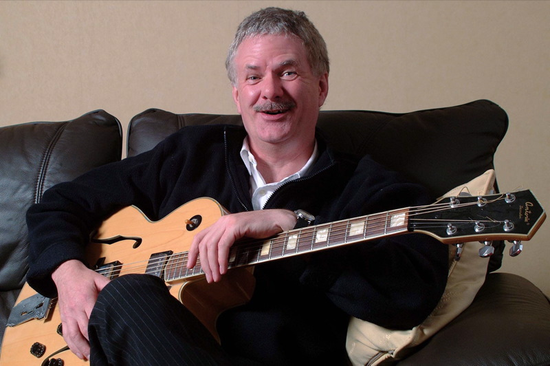 Bernard (The Bolton Bullfrog) Wrigley – actor, narrator, comedian, singer, raconteur.